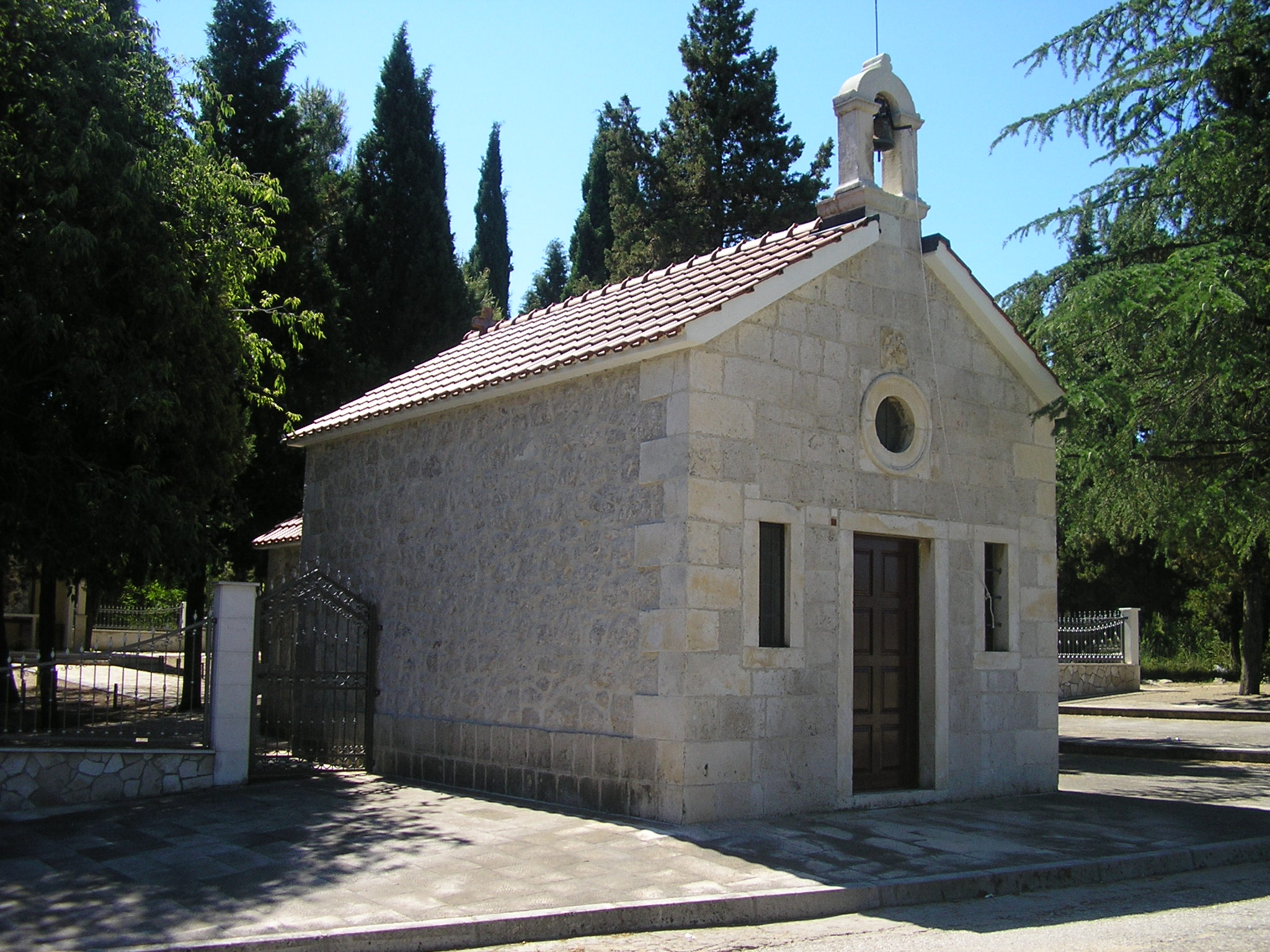 Saint Anthony of Padua church in Metković